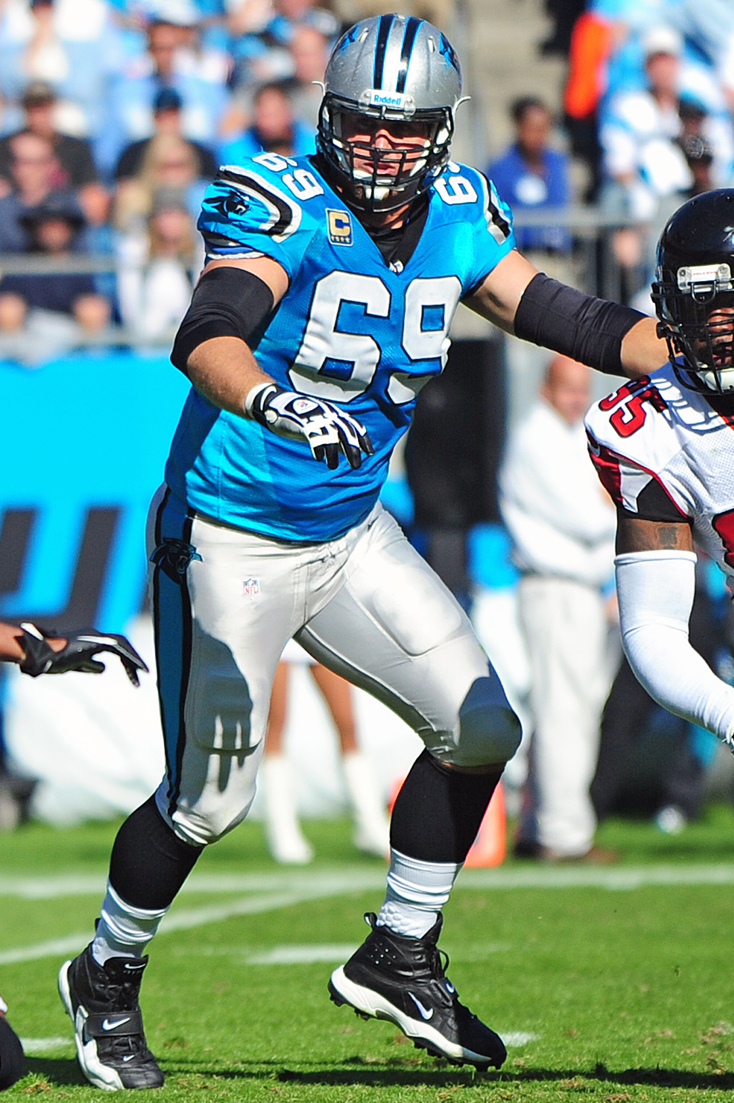 Cam Newton, Carolina Panthers quarterback, maneuvers around Asante Samuel, Atlanta Falcons cornerback, during a game at Bank of America Stadium in Charlotte, N.C., Nov. 3, 2013. Prior to the start of the game, five members of Team Seymour were recognized for their service. (U.S. Air Force photo by Airman 1st Class John Nieves Camacho)